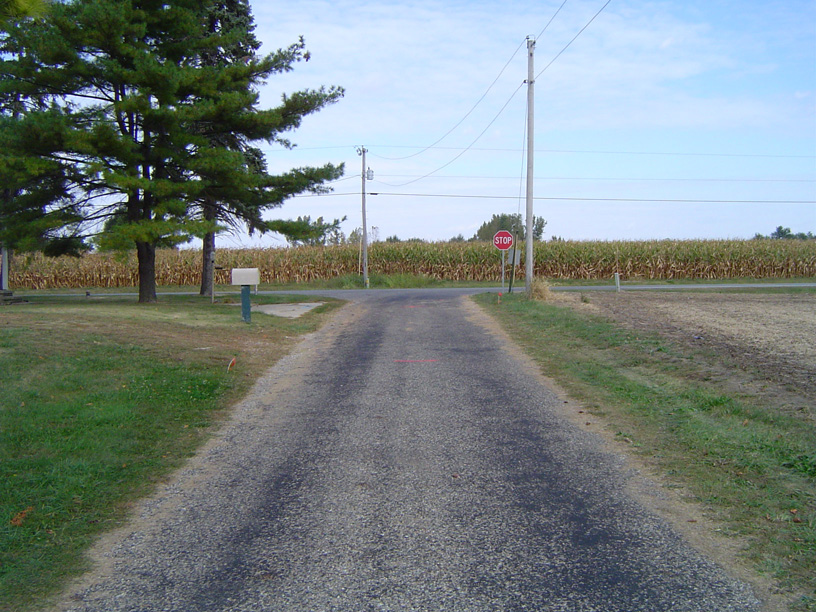 Example of a chip 'n' seal paved road